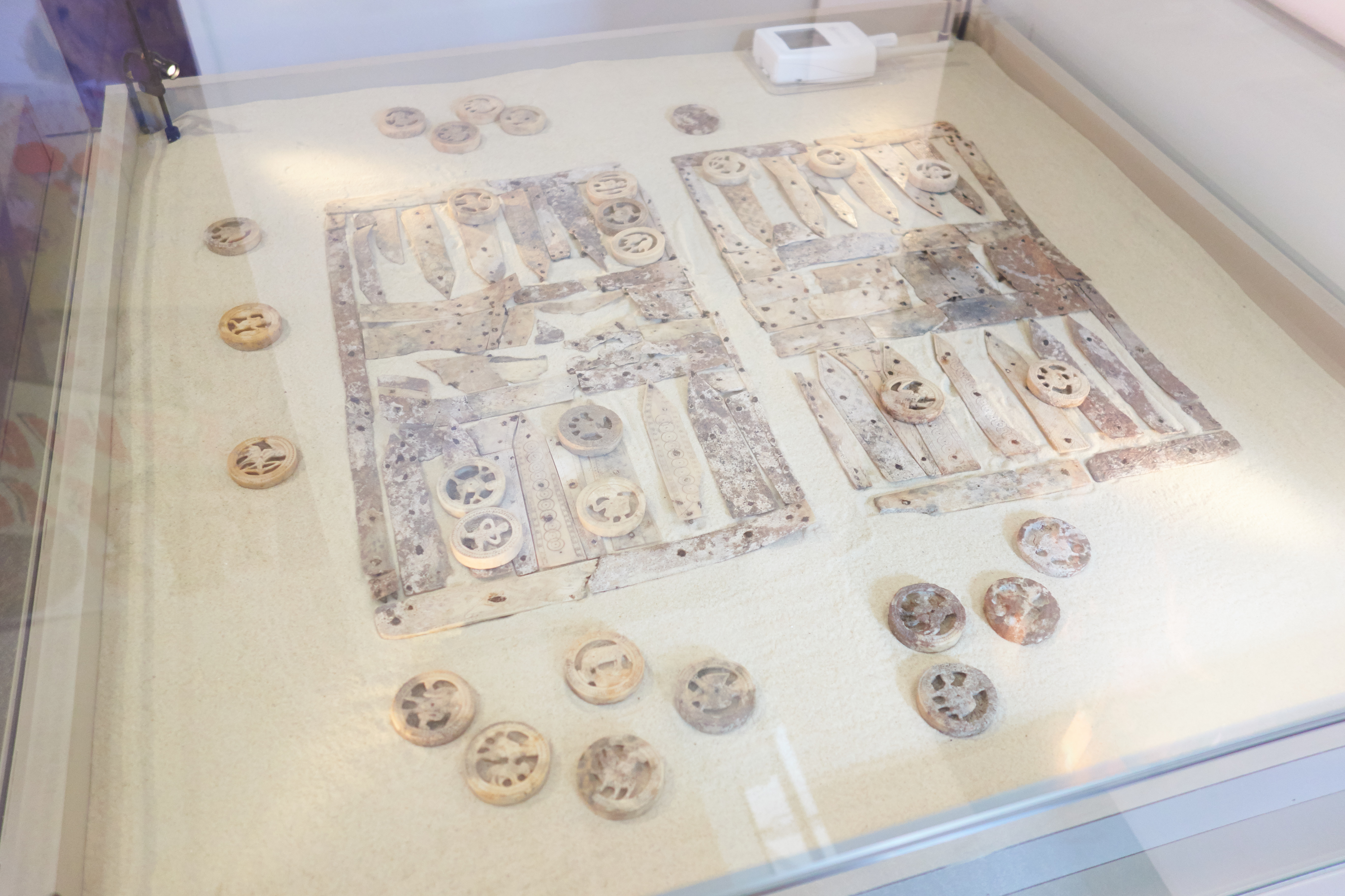 The Gloucester tabula set, as presented in the Museum of Gloucester